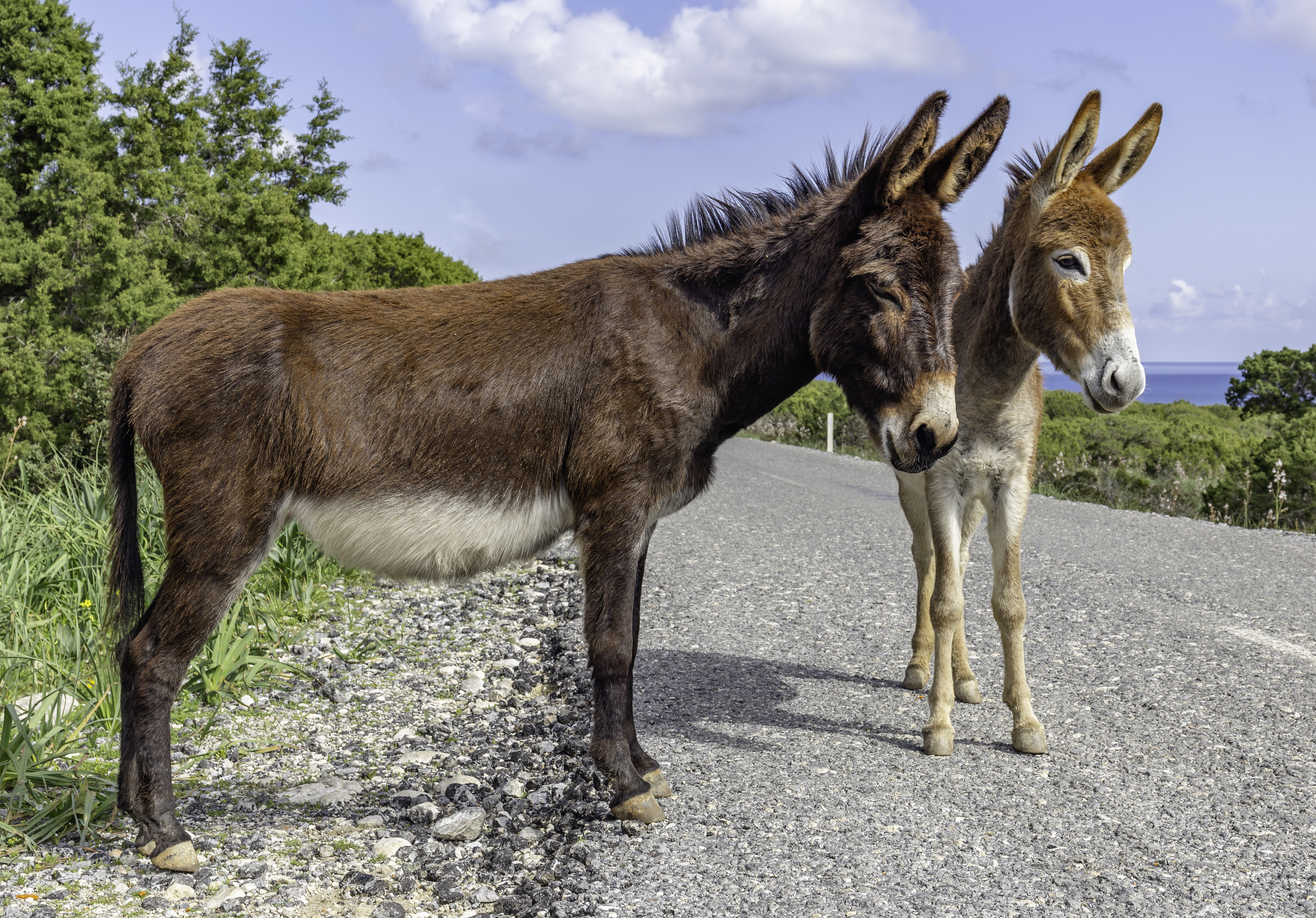 Two Cyprus donkeys, Karpas Peninsula, Northern Cyprus